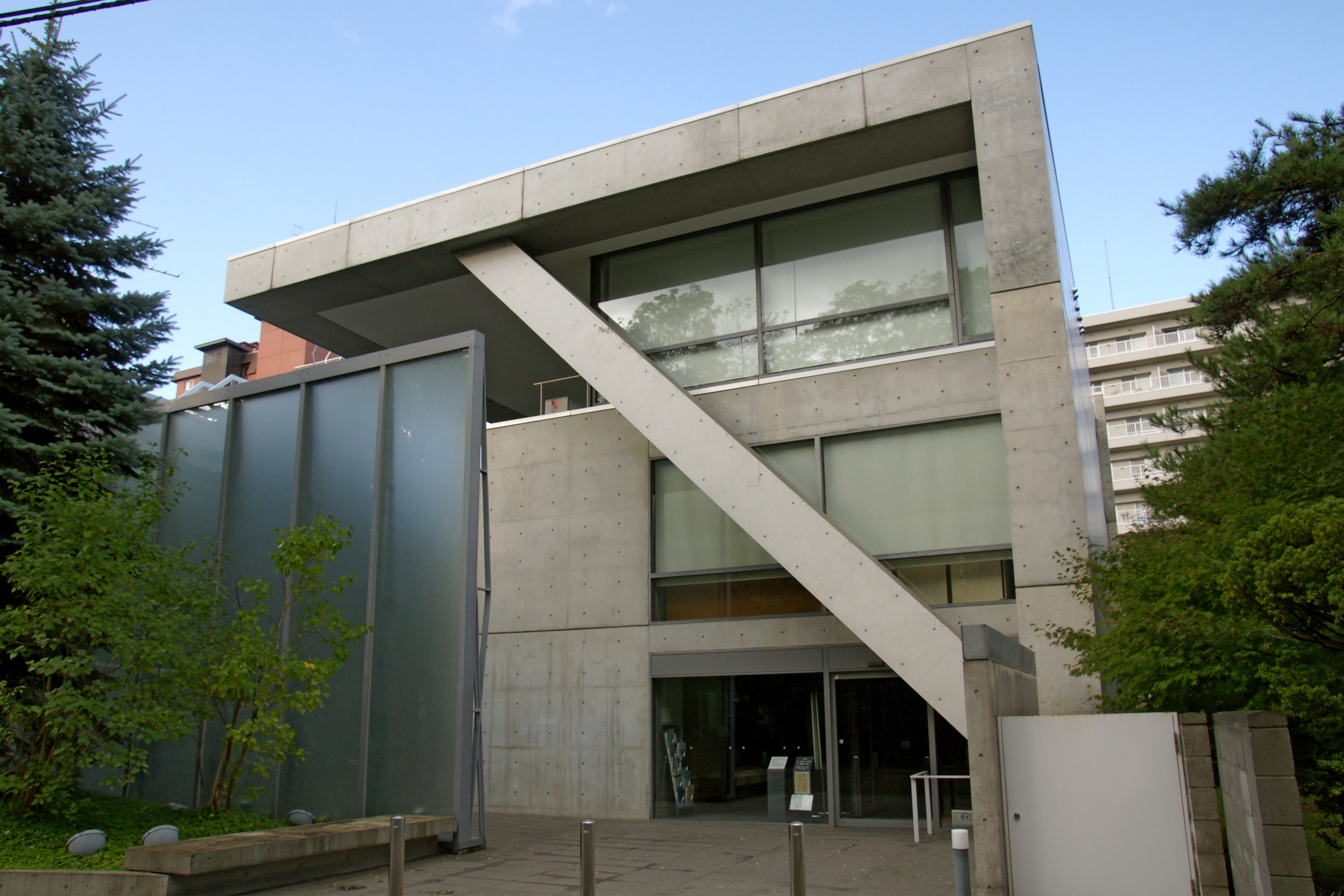 Junichi Watanabe Memorial Museum, Sapporo, Hokkaido prefecture, Japan